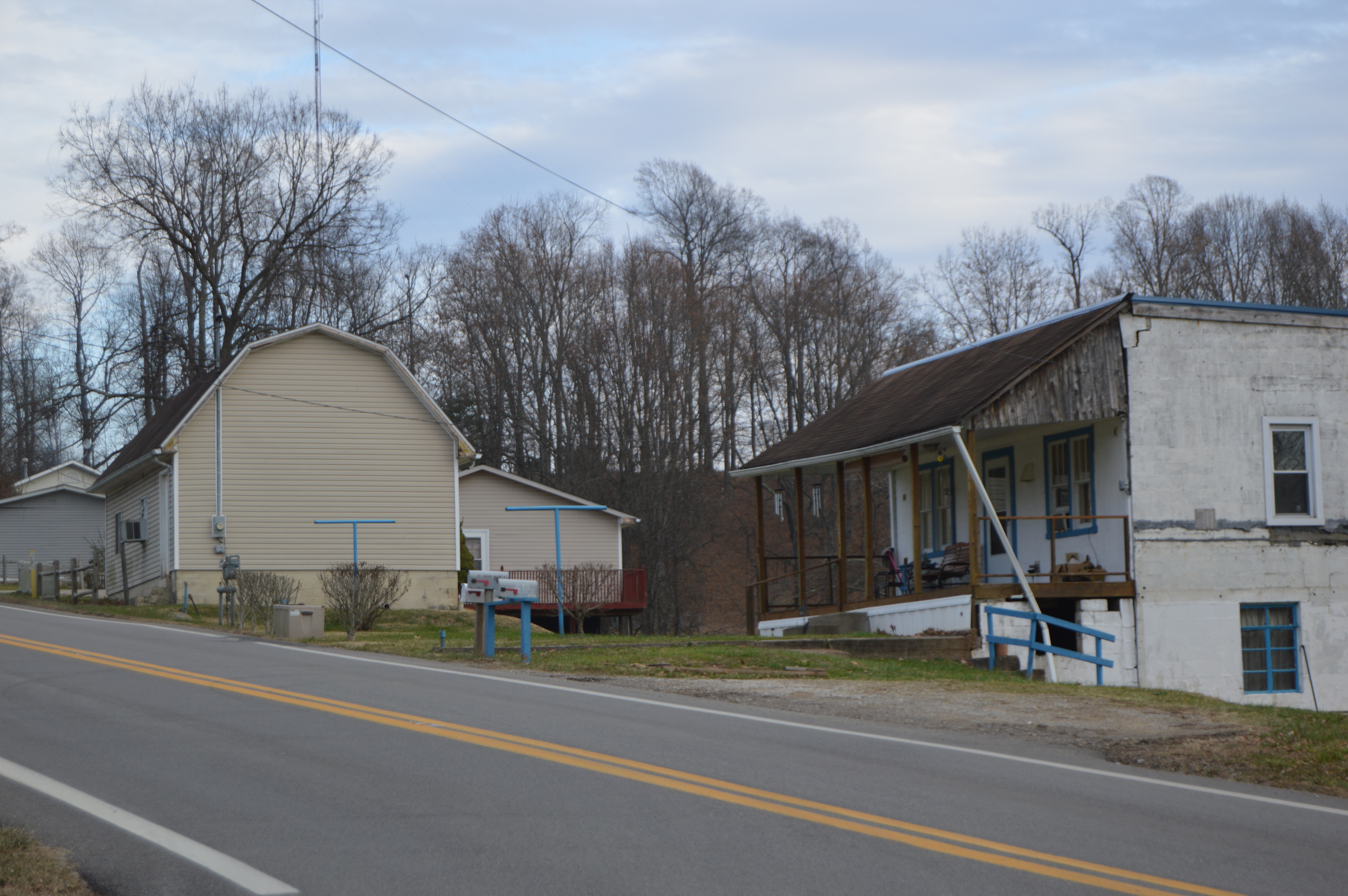 Roadside scene on West Virginia Route 214 at Sumerco in Lincoln County, West Virginia, United States.